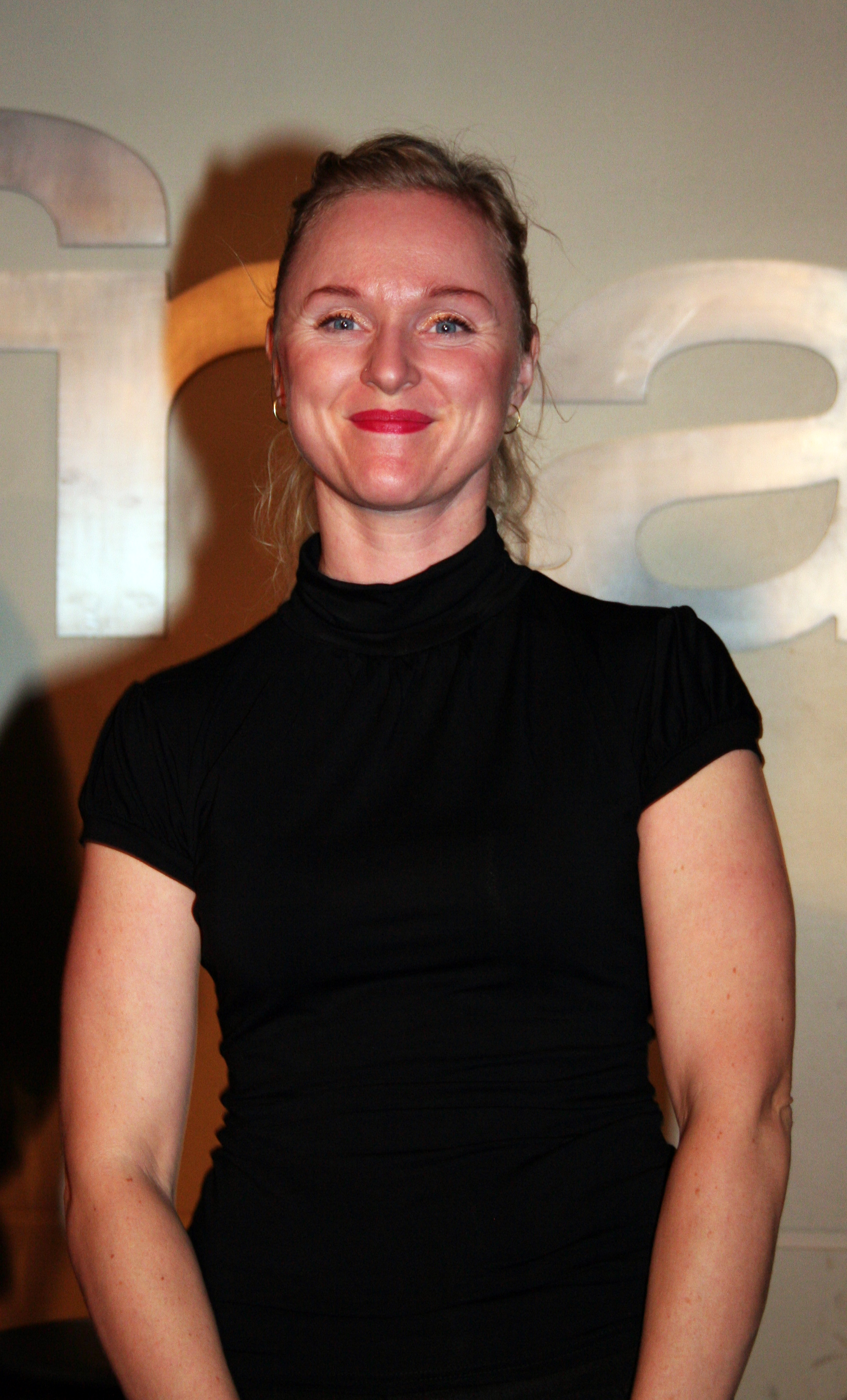 Show-case with Leaves' Eyes at Fnac des Halles (Paris, France).